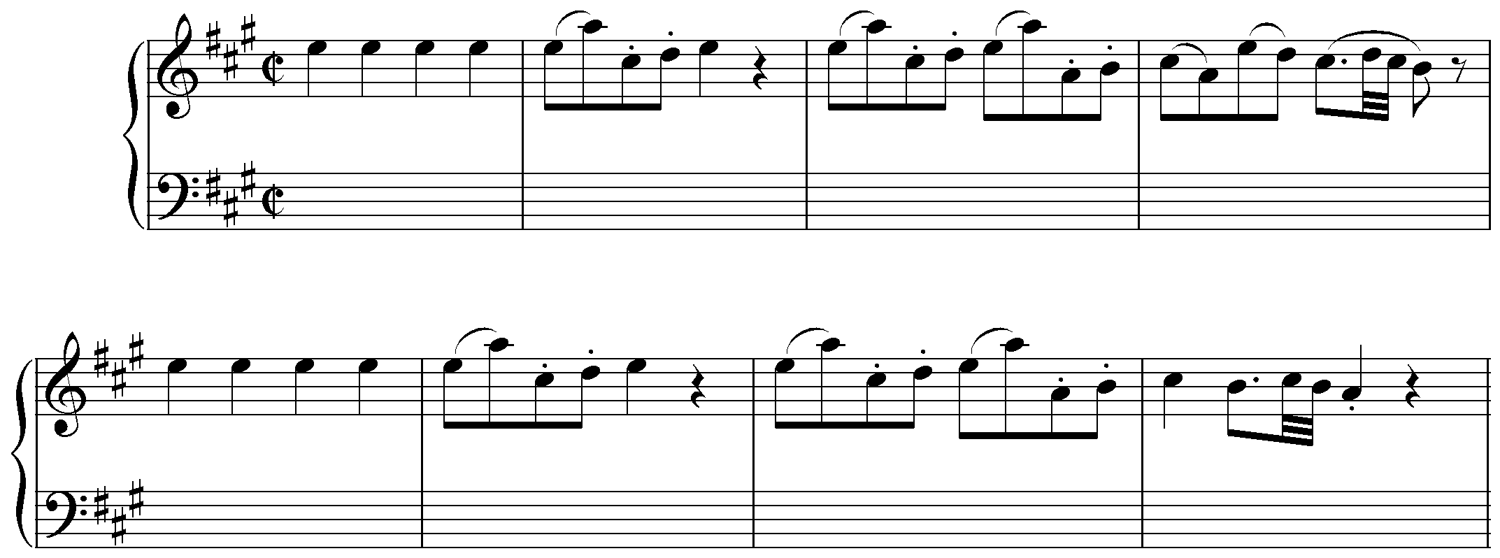 The opening eight bars of the second movement of Mozart's Piano Concerto K. 537. This image shows the piano part as it appears in Mozart's autograph (hand-written) version, in which the notes for the left hand are left for the player to improvise. Source is Braunbehrens (1990) Mozart in Vienna, p. 6. This music was written over 200 years ago and is in the public domain. Digital image of the notes made by Opus33 using Sibelius software. The image is hereby released by Opus33 into the public domain.